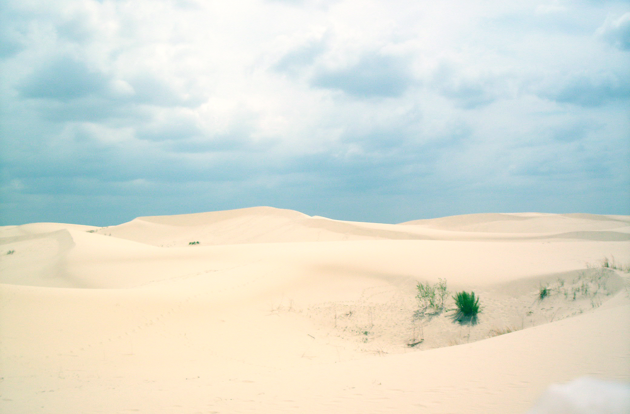 Texas Desert by Monahans